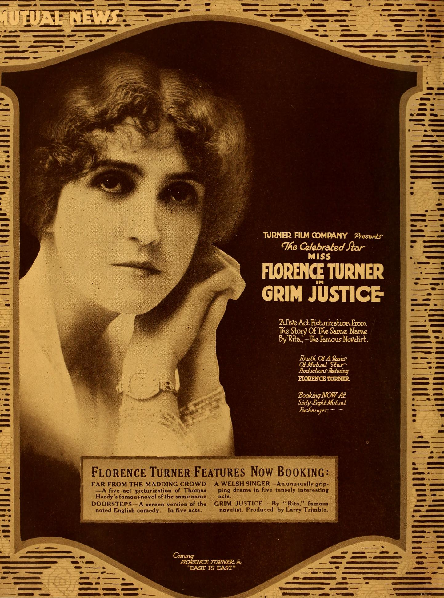 Advertisement in Moving Picture World